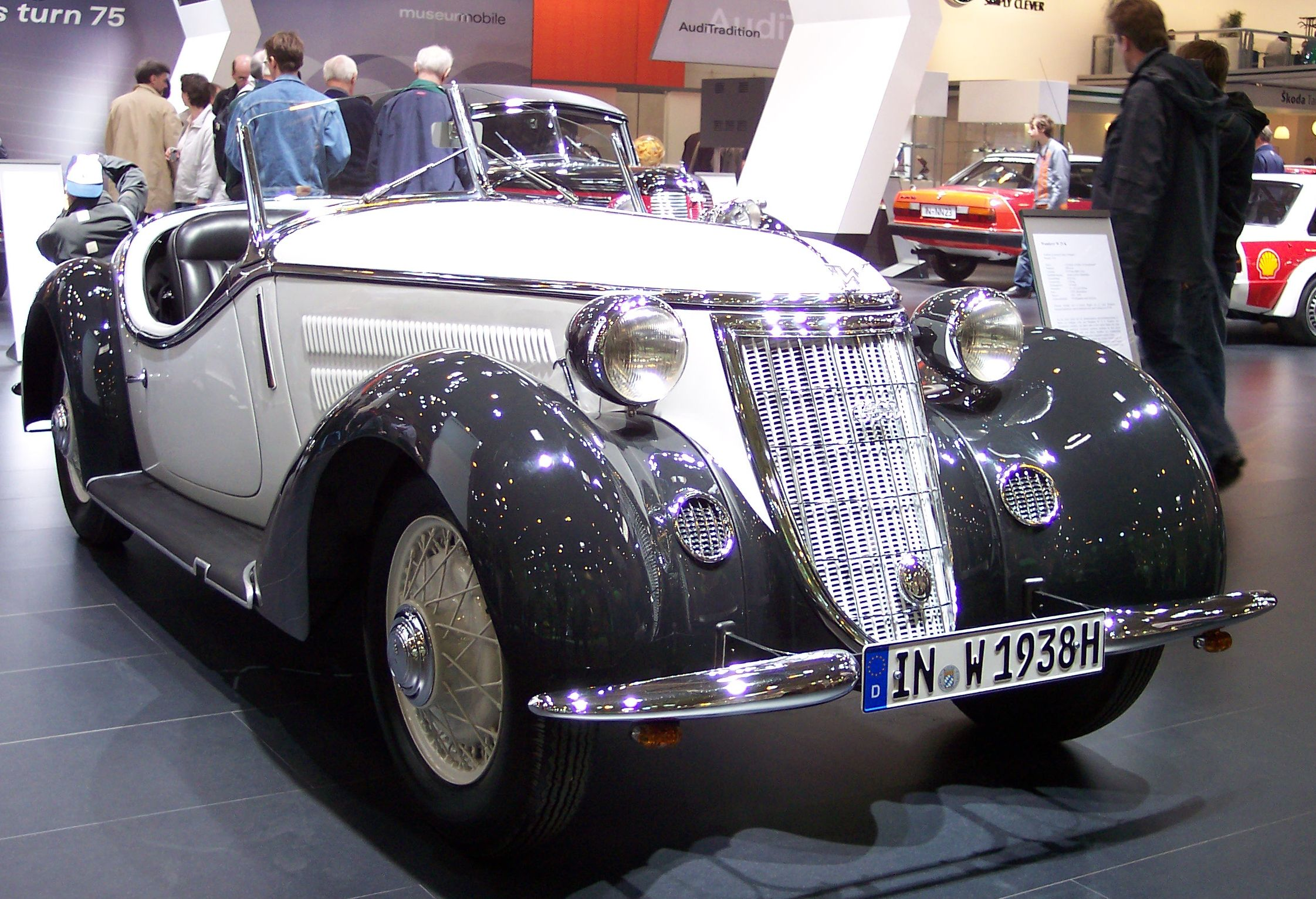 Essen Techno-Classica 2007, Roadster Wanderer W 25 K